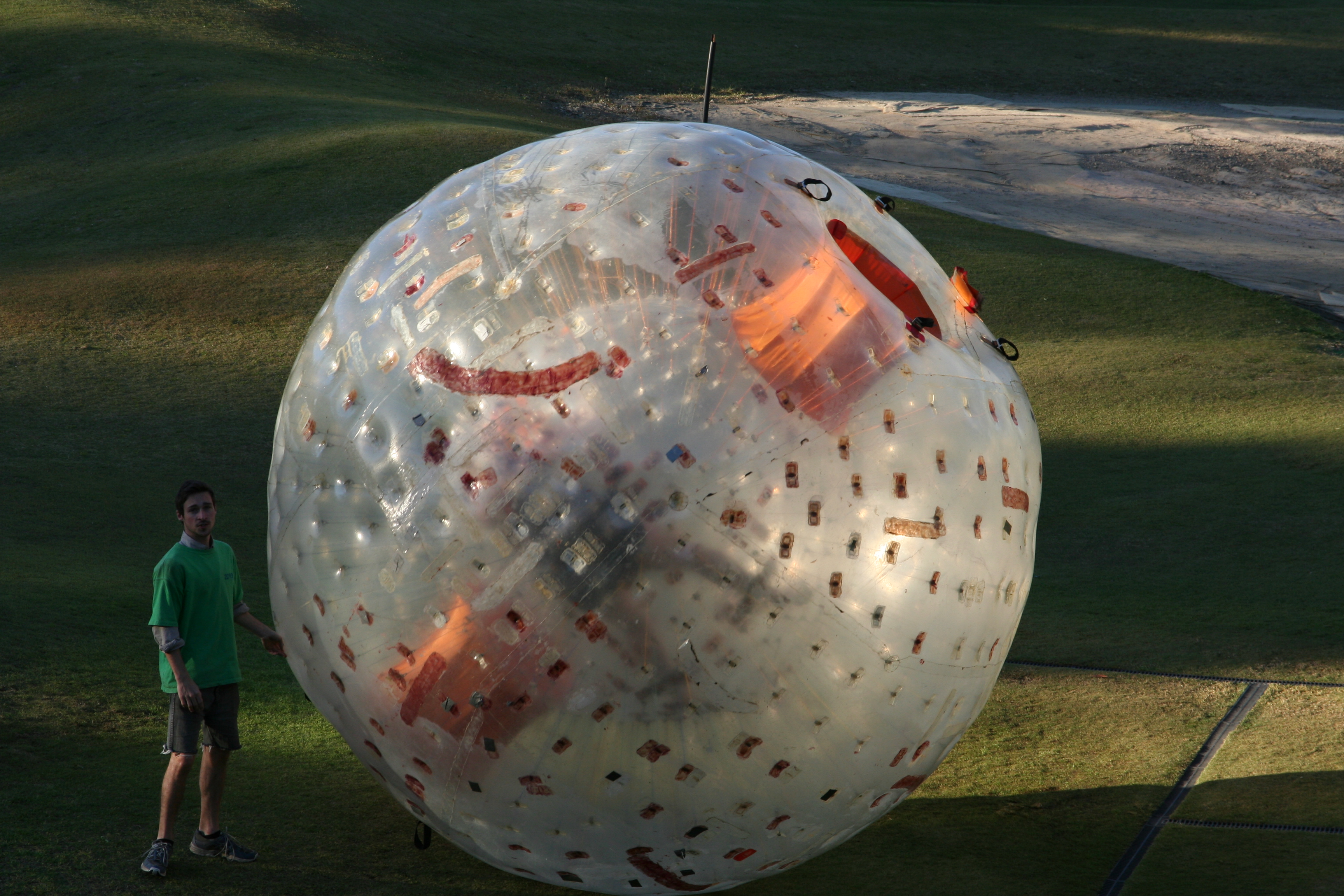 Sphereing, also known as globe-riding and Zorbing, is a recreational activity in which one, two or three people ride inside the inner wall of a plastic ball that rolls on the ground. To cushion the rider from bumps, there is about half a meter (about two feet) of air between the inner and outer walls of the ball. Some balls have straps to hold the rider(s) in place and some leave the rider(s) free so that they can influence the ball's movement or be tossed around freely by the ball's rolling and bouncing, optionally with a sloshing amount of water inside. People concerned about their balance, safety or other needs may enjoy the activity on ground that is either level or only slightly rolling. There are videos of rides at the Zorb website and at YouTube.